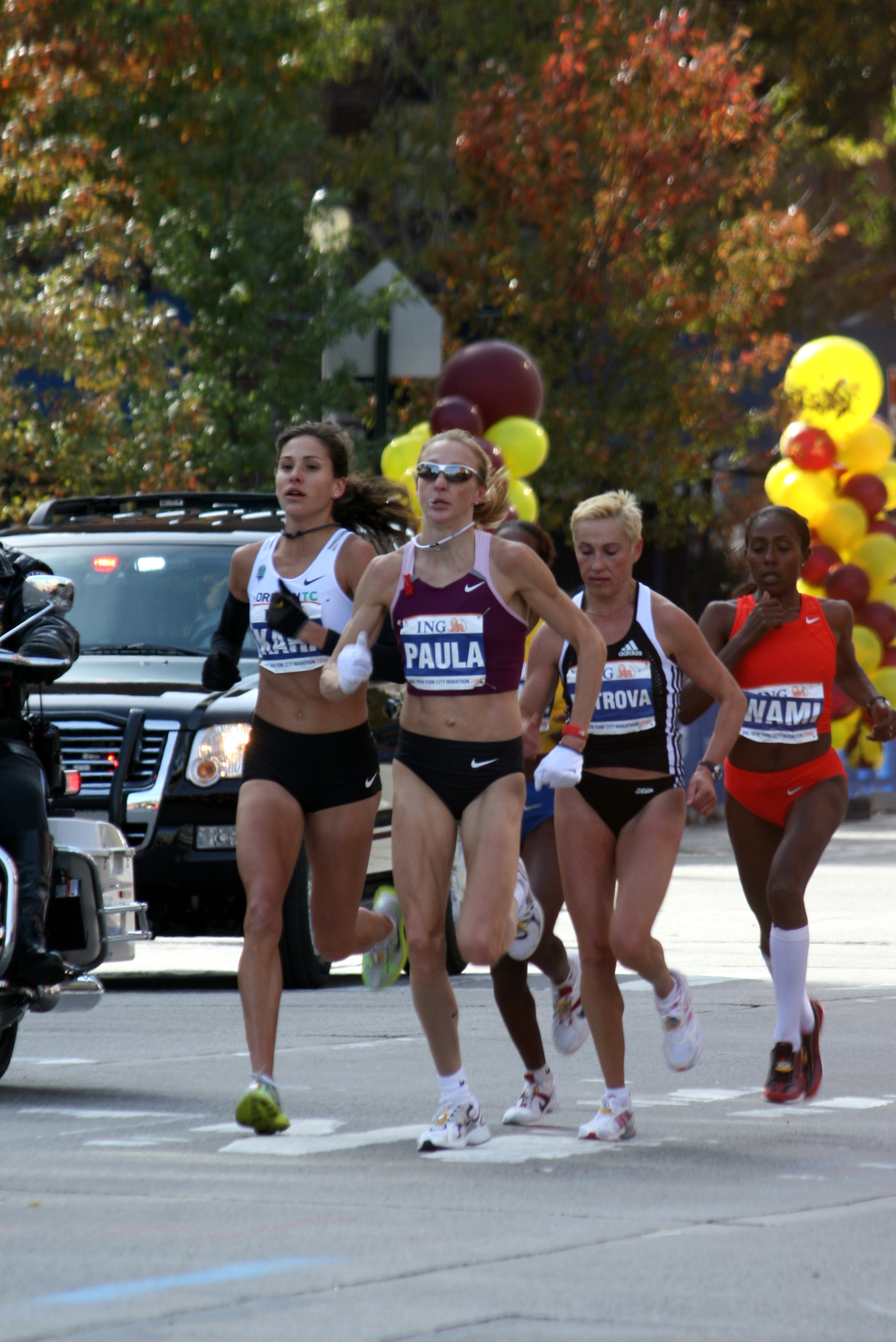 2008 NYC Marathon, left to right: Kara Goucher, Paula Radcliffe, Ludmila Petrova, Gete Wami.